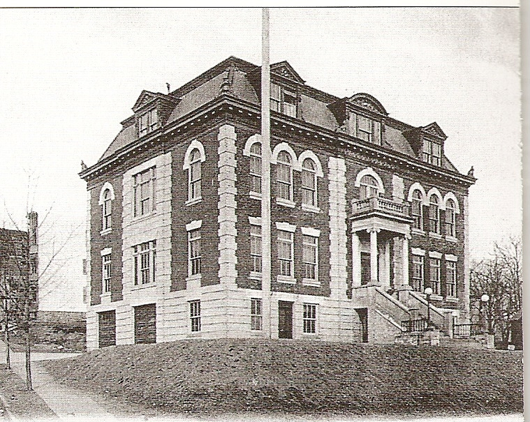 Edgewater Boro Hall in postcard from early 20th C